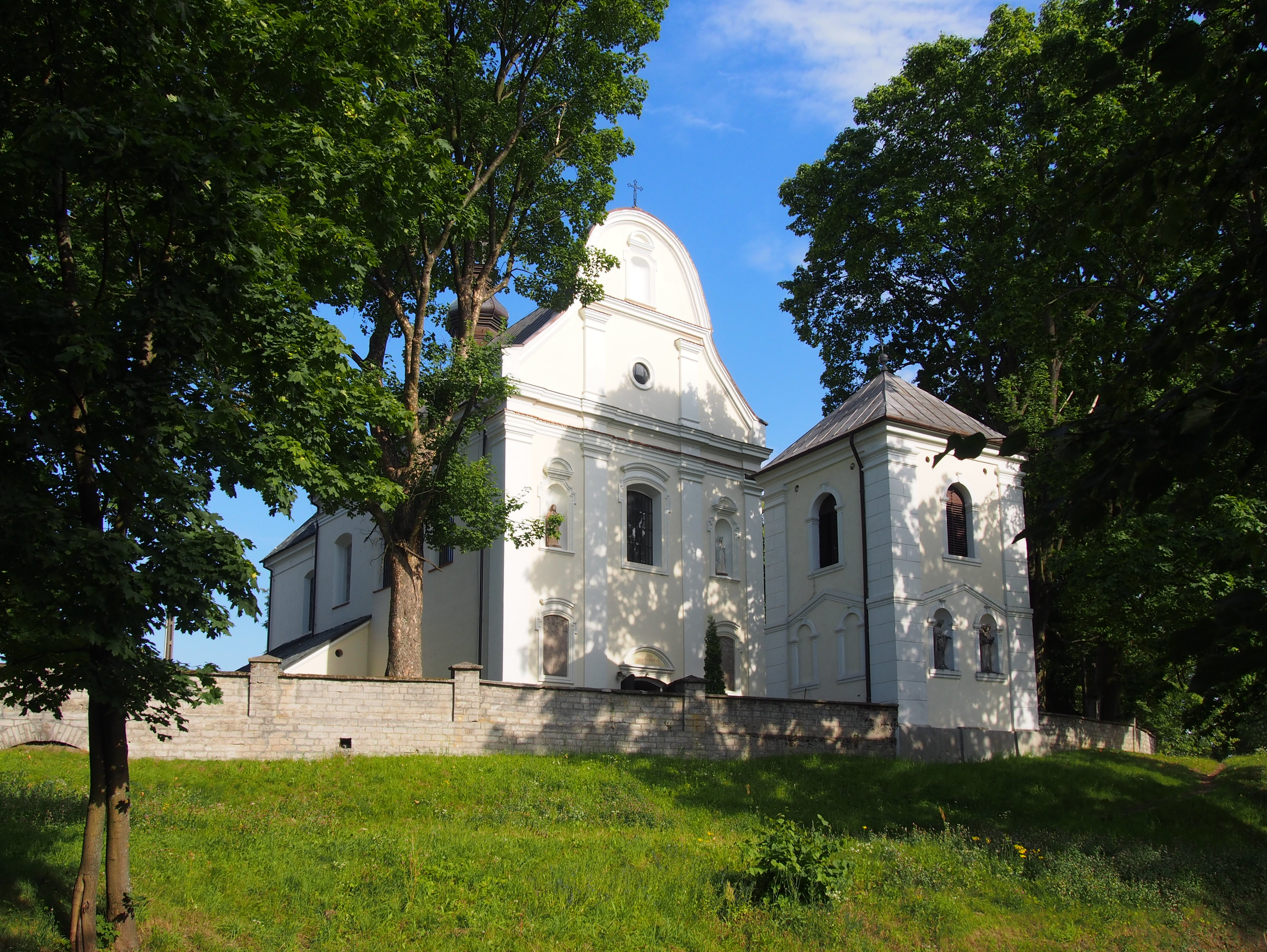 Building complex of the Holy Trinity church in Bogoria, powiat staszowski, Świętokrzyskie Voivodeship, Poland. Church building, bell tower and the stone fence.